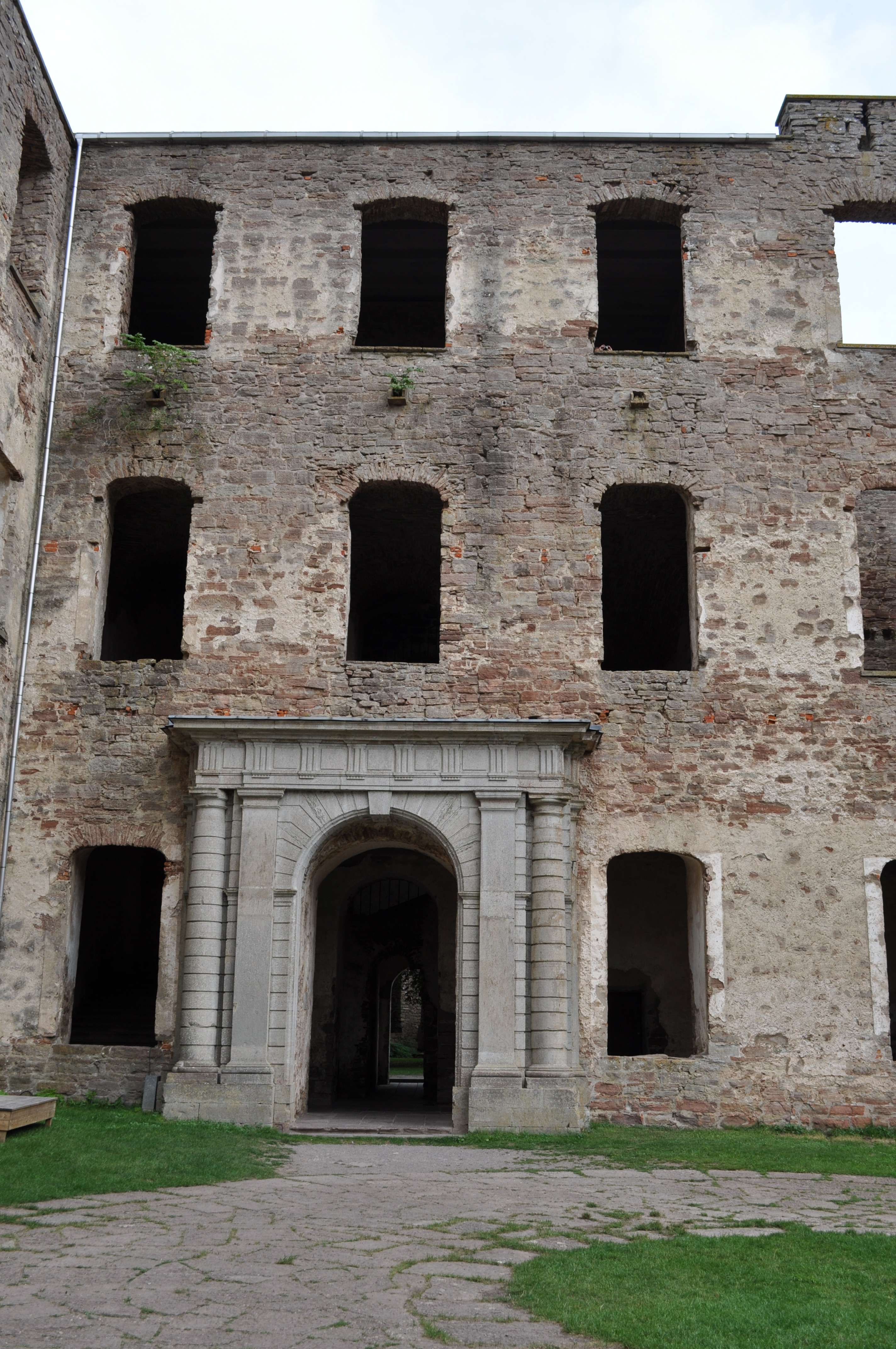 Borgholm slott, portal